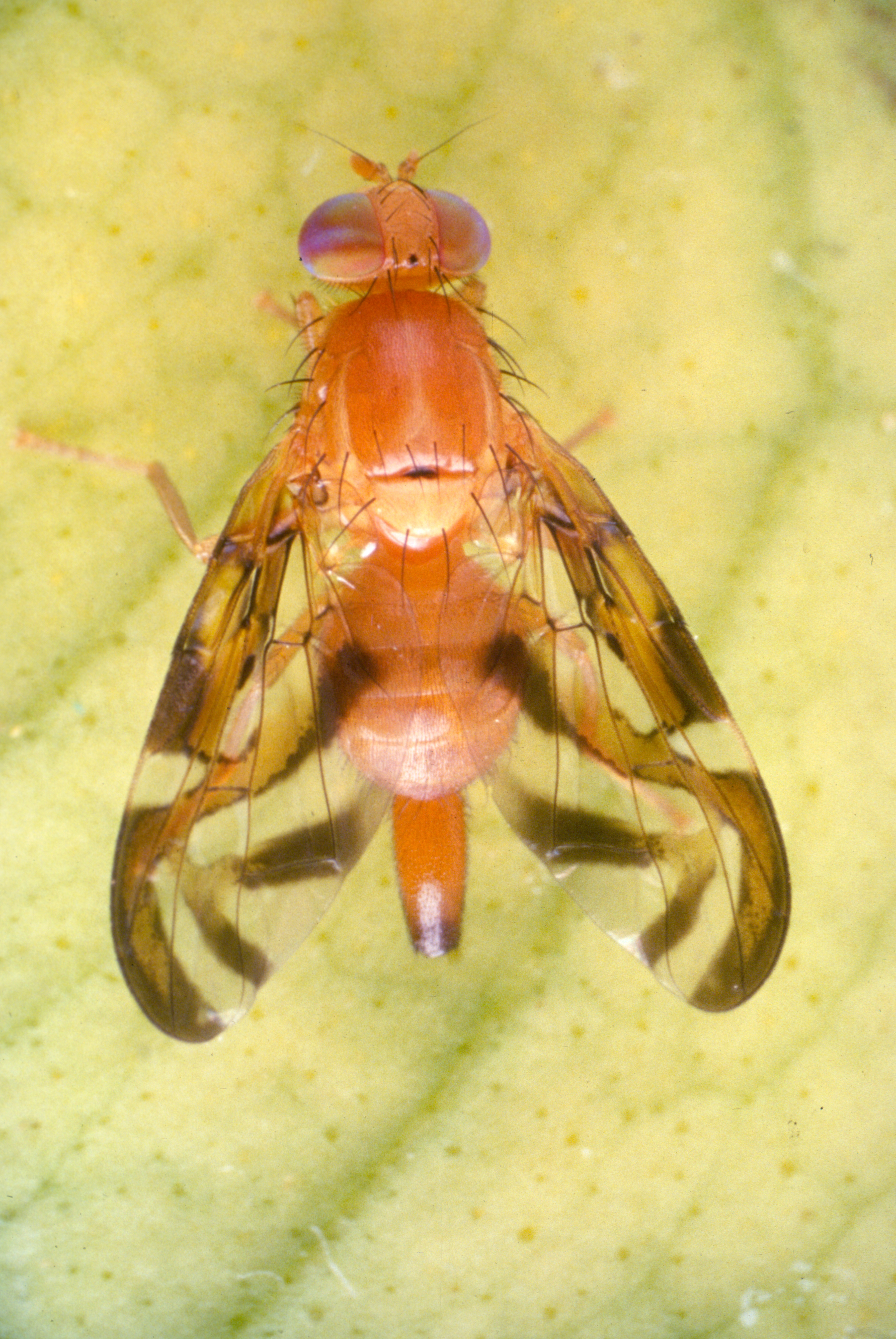 Caribbean fruit fly (male)